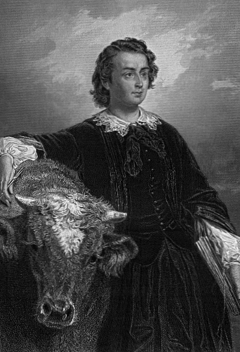 Rosa Bonheur, french painter (1822-1899)